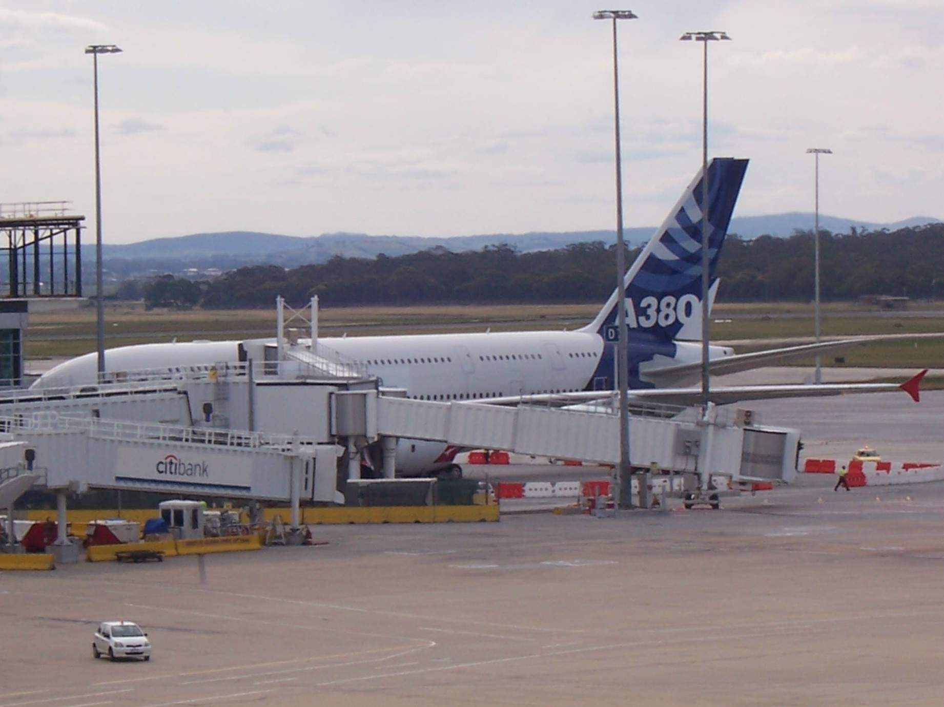 The Airbus A380 in Melbourne for the first time as part of the testing programme.